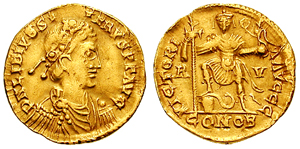 Libius Severus. 461-465 AD. AV Solidus (4.31 gm). Ravenna mint. Diademed, draped and cuirassed bust right Severus standing facing, holding long cross in right hand and Victory on a globe in left, his right foot resting on a human-headed serpent; R-V/CONOB. RIC X 2719; Depeyrot 24/1; Lacam 25. VF, typical wavy flan.